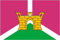 Flag of Ust-Labinsky rayon, Krasnodar Territory, Russia